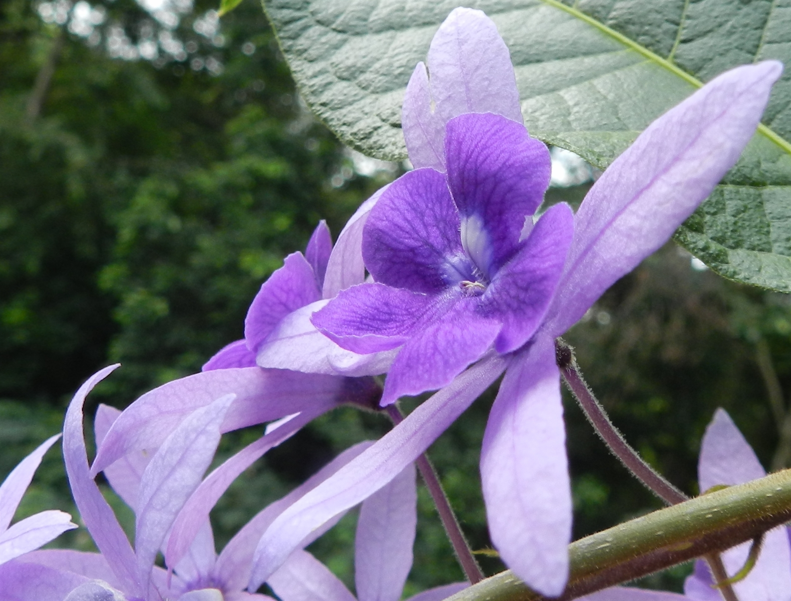 Petrea volubillis in El Crucero, Managua, Nicaragua.